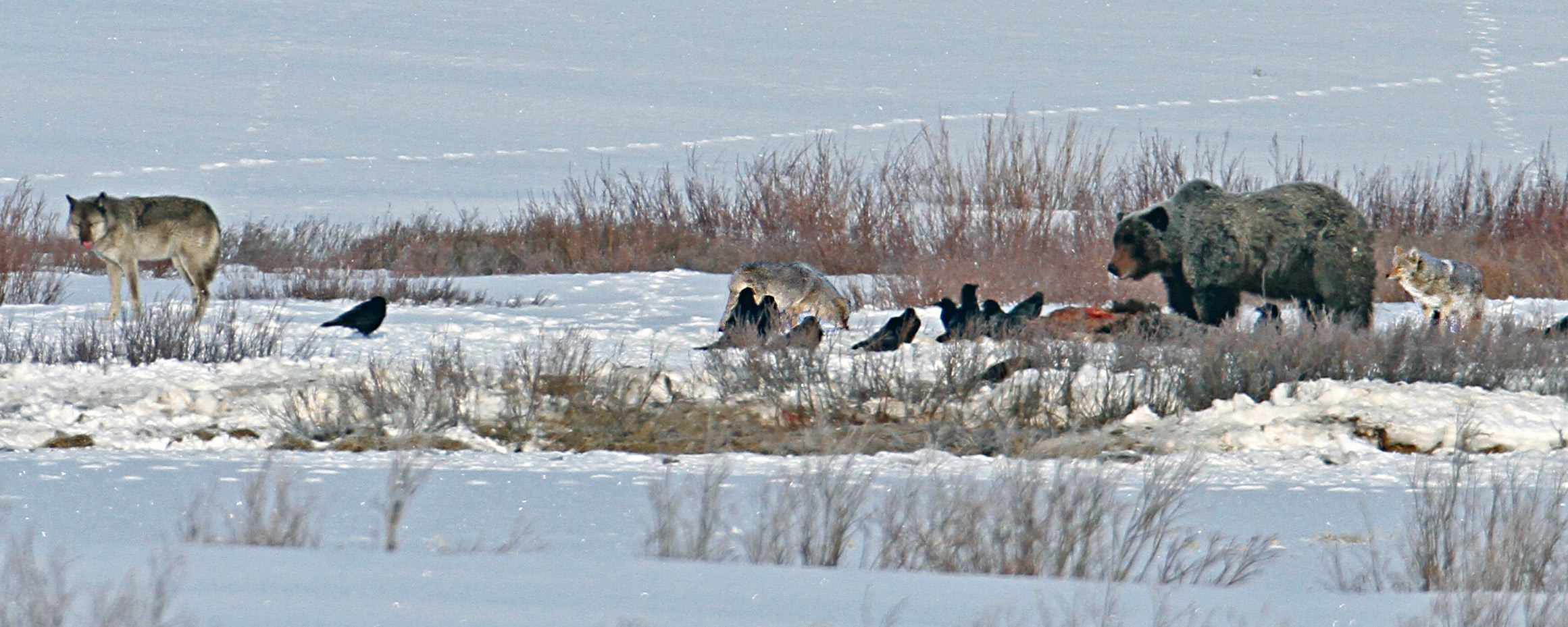 Yellowstone National Park, Wyoming, Montana, Idaho, USA - Wolves, ravens, and a grizzly bear vie to feed upon a carcass.